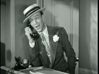 Movie screenshot of Fred Astaire in Second Chorus